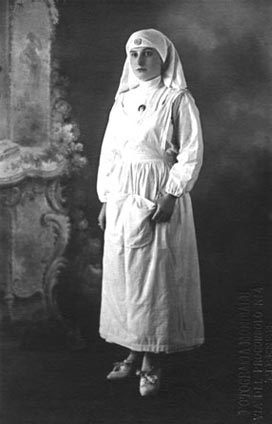 Maria Valtorta, italian religious writer, mystic, at age 21, in the uniform of a Samaritan Nurse